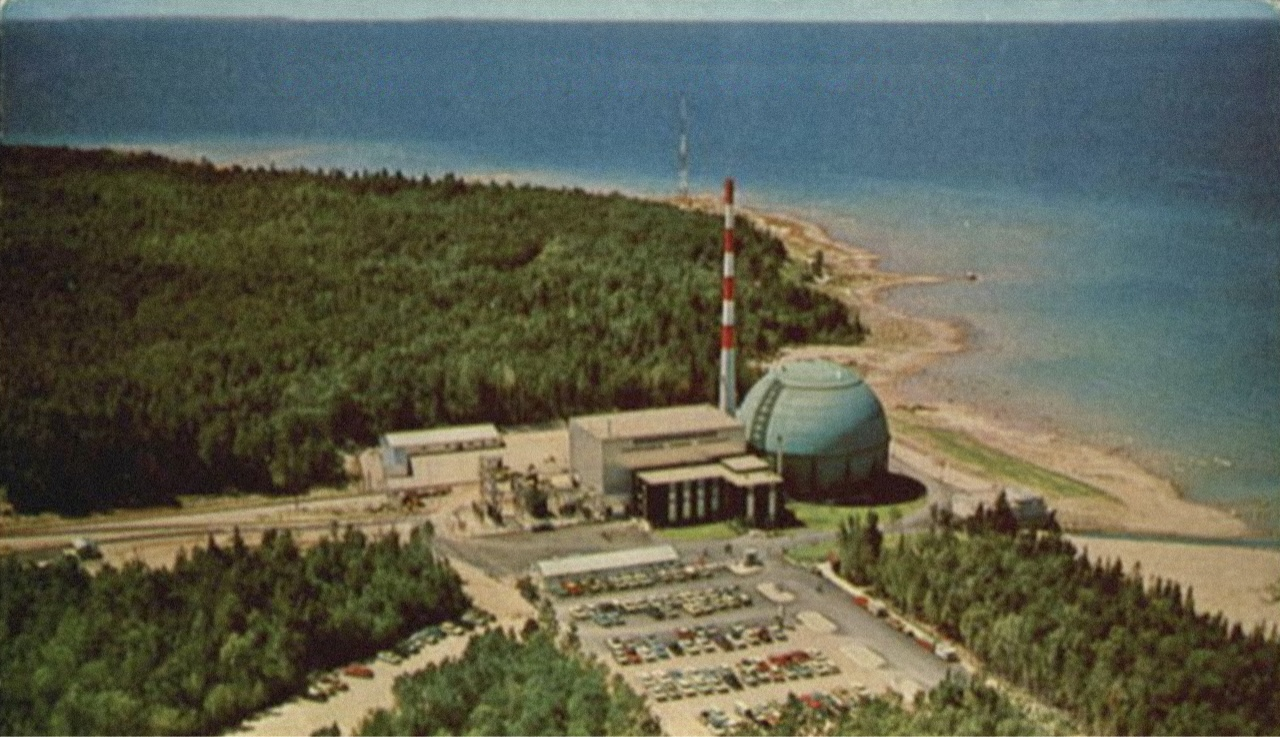 Big Rock Point Nuclear Power Plant -Lake Michigan-photo-1970